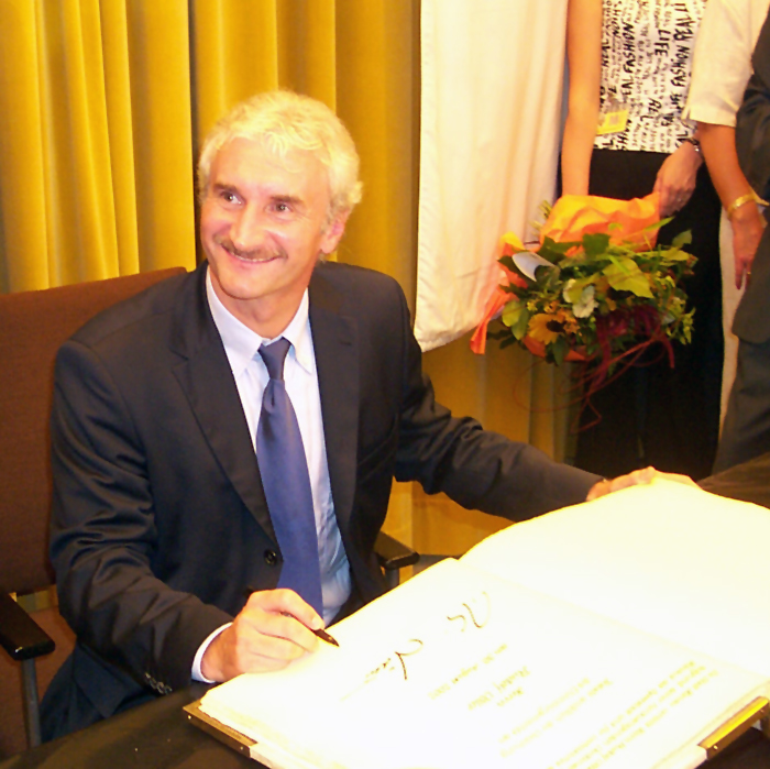 Description: Rudi Völler Photographer: Tobias Koch (ToKo) Date: August 2002